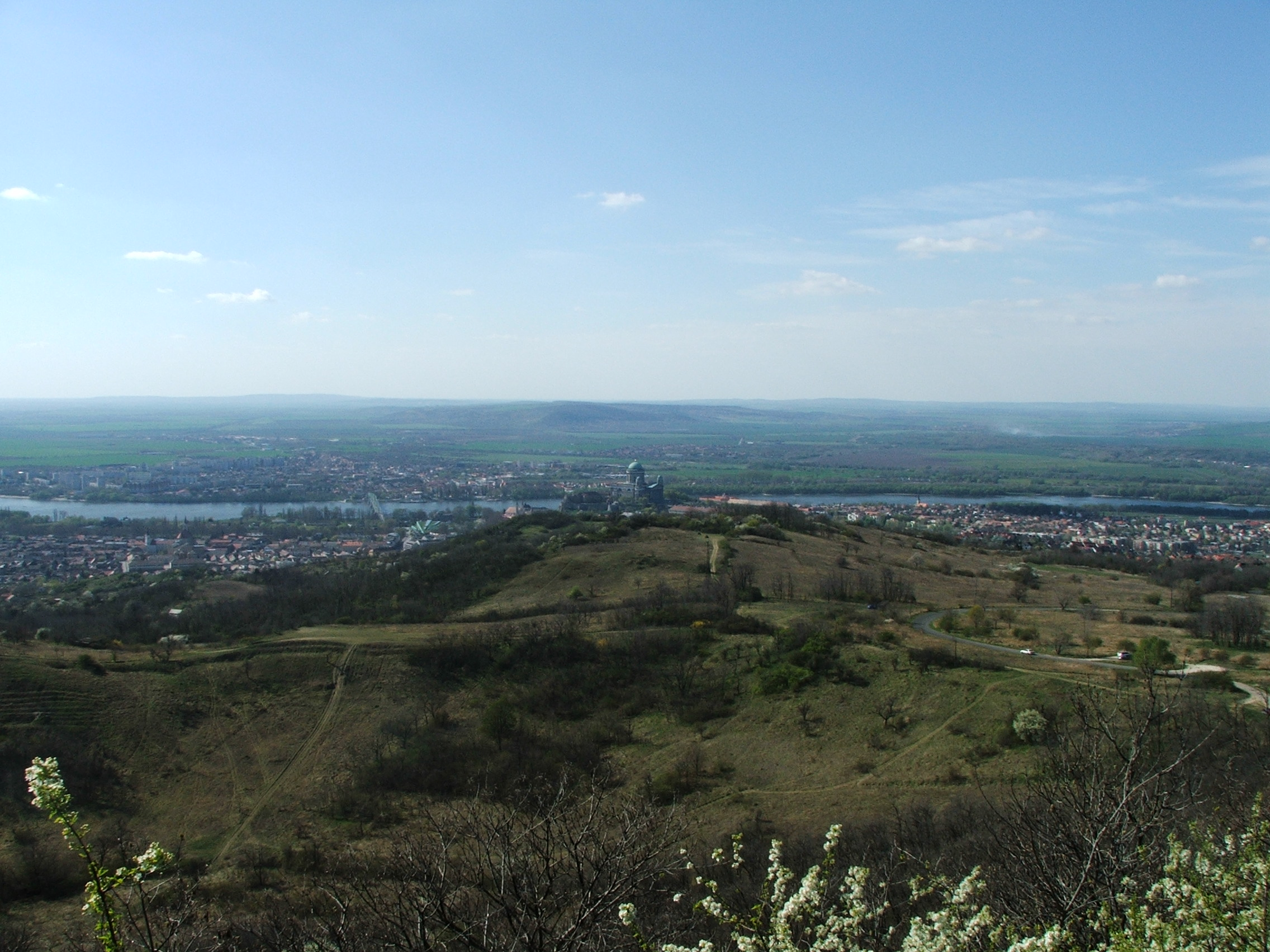 The Sípolóhegy mountain in Esztergom, Hungary